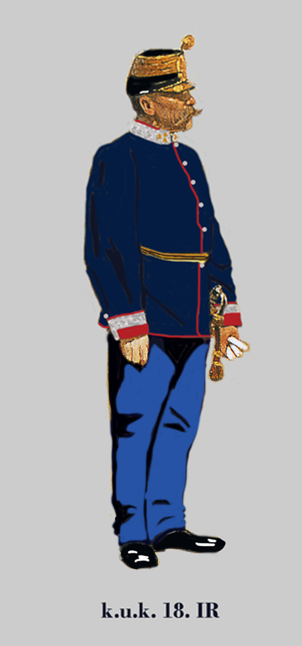 Colonel of the Austria-Hungarian (k.u.k.). 18th german Infantry Regiment in Parade dress. 1914